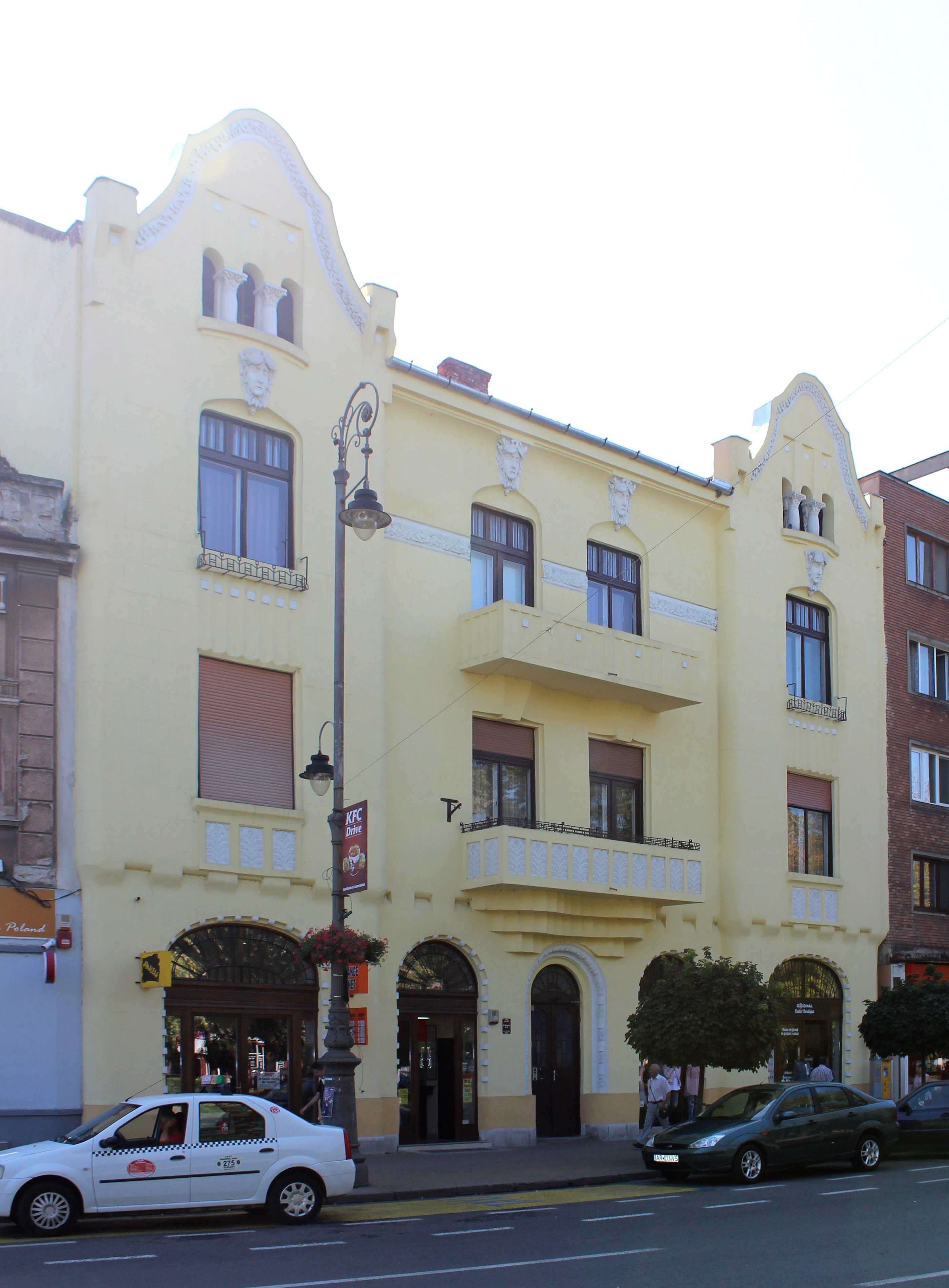 House in Arad, Romania, Revoluției av., no 29, built about 1913